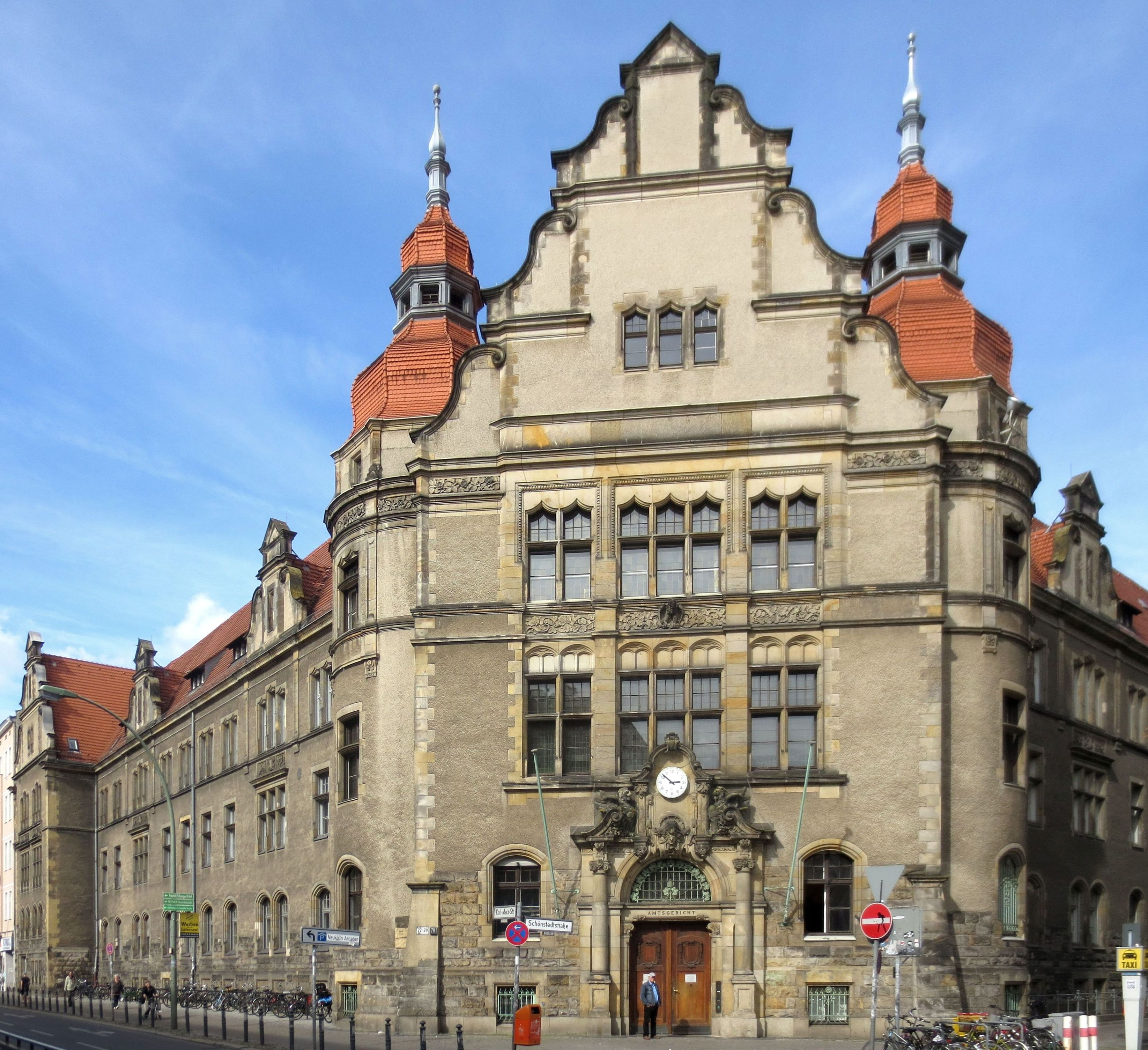 The District Court Neukölln at Karl-Marx-Straße No. 77/79, corner of Schönstedtstraße (on the right), in Berlin-Neukölln. It was built from 1899 to 1901 by Faerber and Bohl with a prison block. The complex has been designated as a cultural heritage monument.